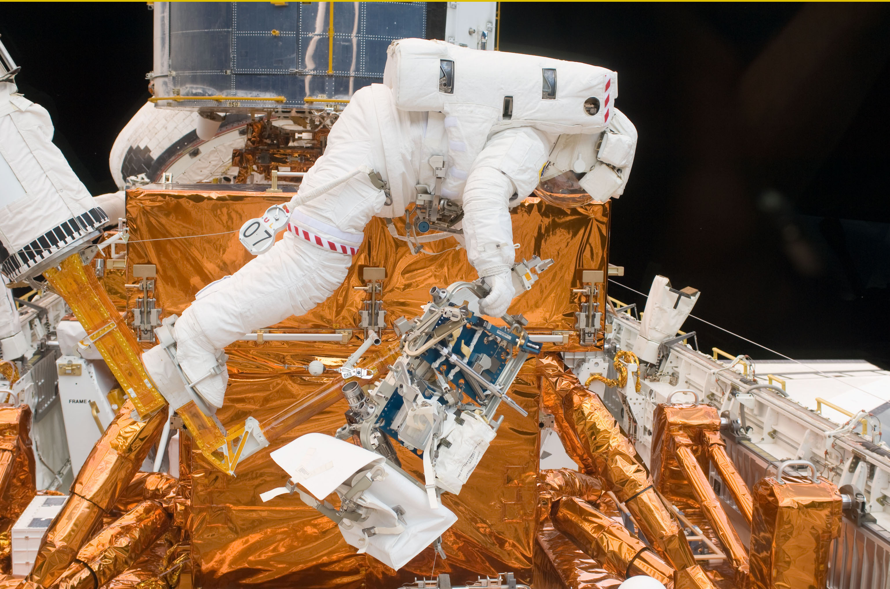 Astronaut Michael Good works with the Hubble Space Telescope in the cargo bay of the Earth-orbiting Space Shuttle Atlantis. Astronauts Good and Mike Massimino (working background) participated in the second session of STS-125 extravehicular activity -- as part of a five-day beehive-like agenda of spacewalking and work on the giant orbital observatory.